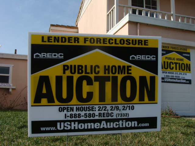 Half million dollar house in Salinas, California under foreclosure.